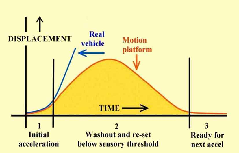 diagram 3 of 3 illustrating the principle of acceleration onset cueing